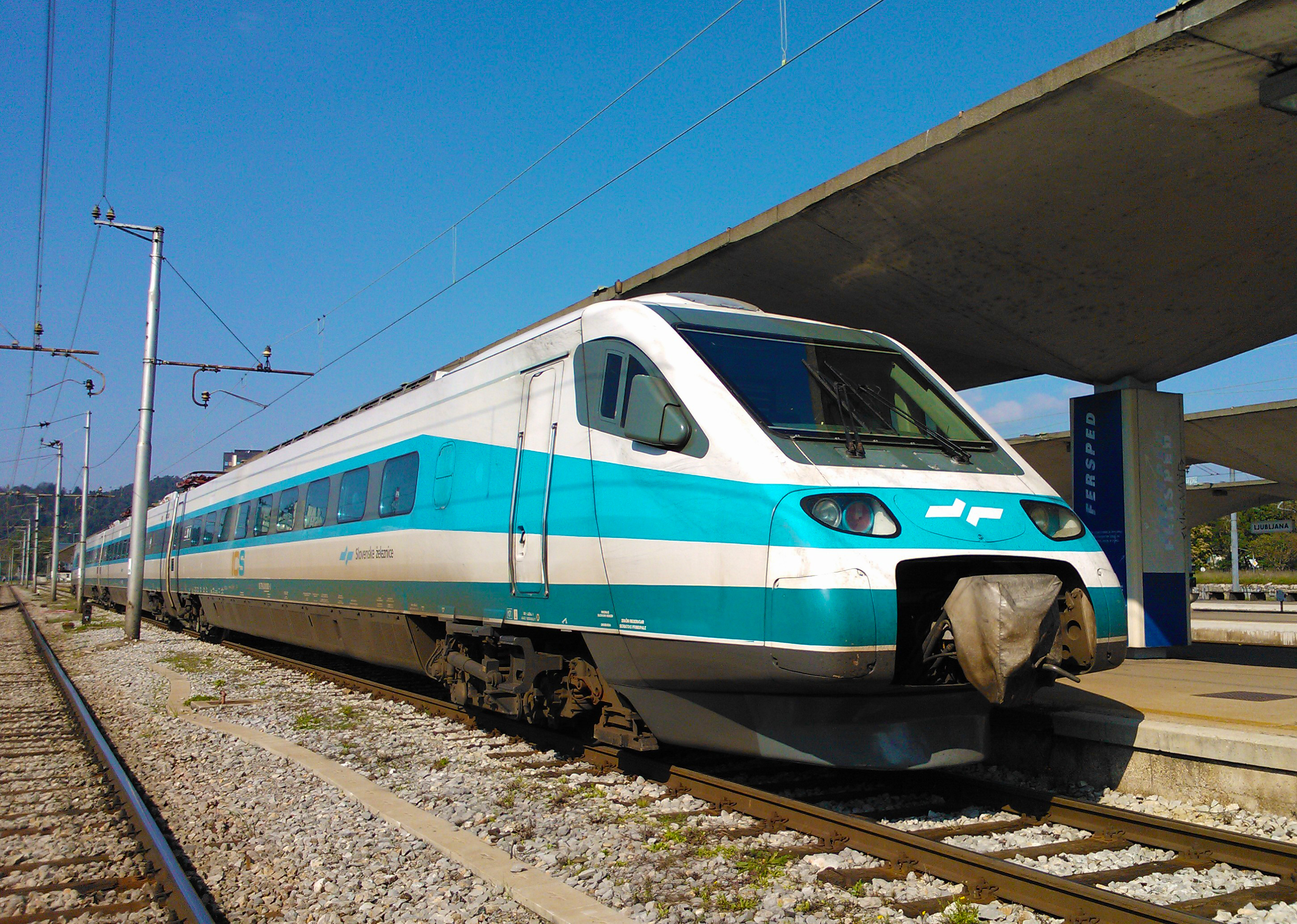 Pendolino ETR 310 of Slovenian railways in Ljubljana Central train station. Српски (ћирилица): Воз Пендолино серије ЕТР310 на љубљанској железничкој станици.